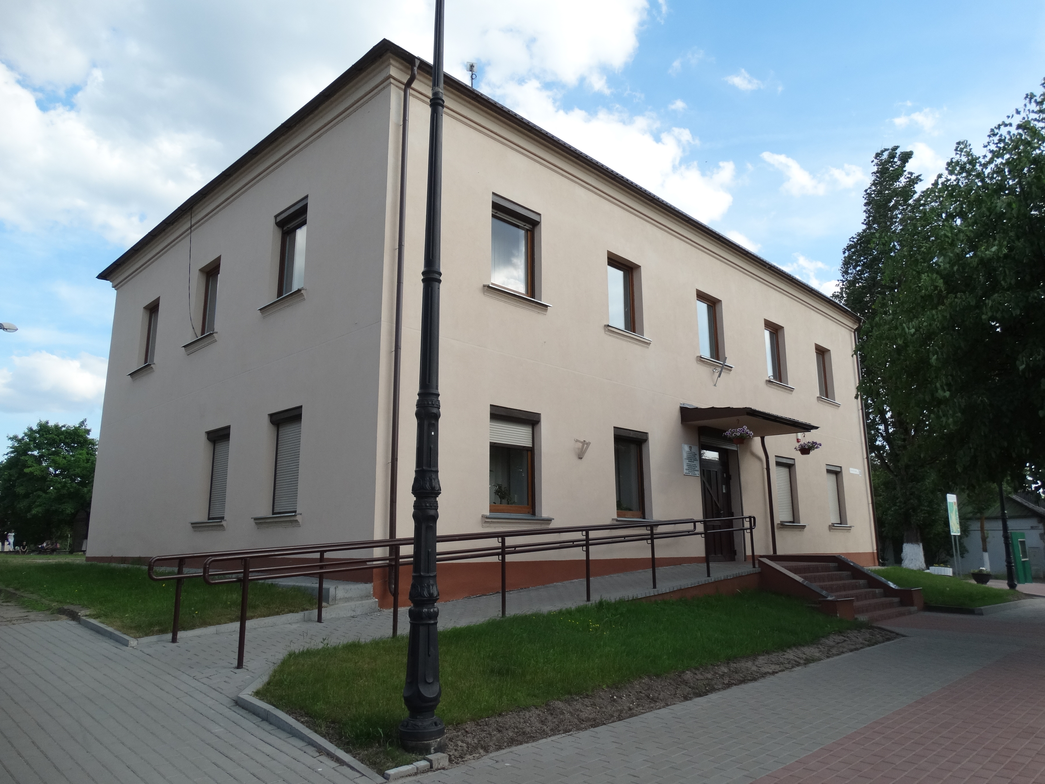 Eldership, Nemenčinė, Vilnius District, Lithuania